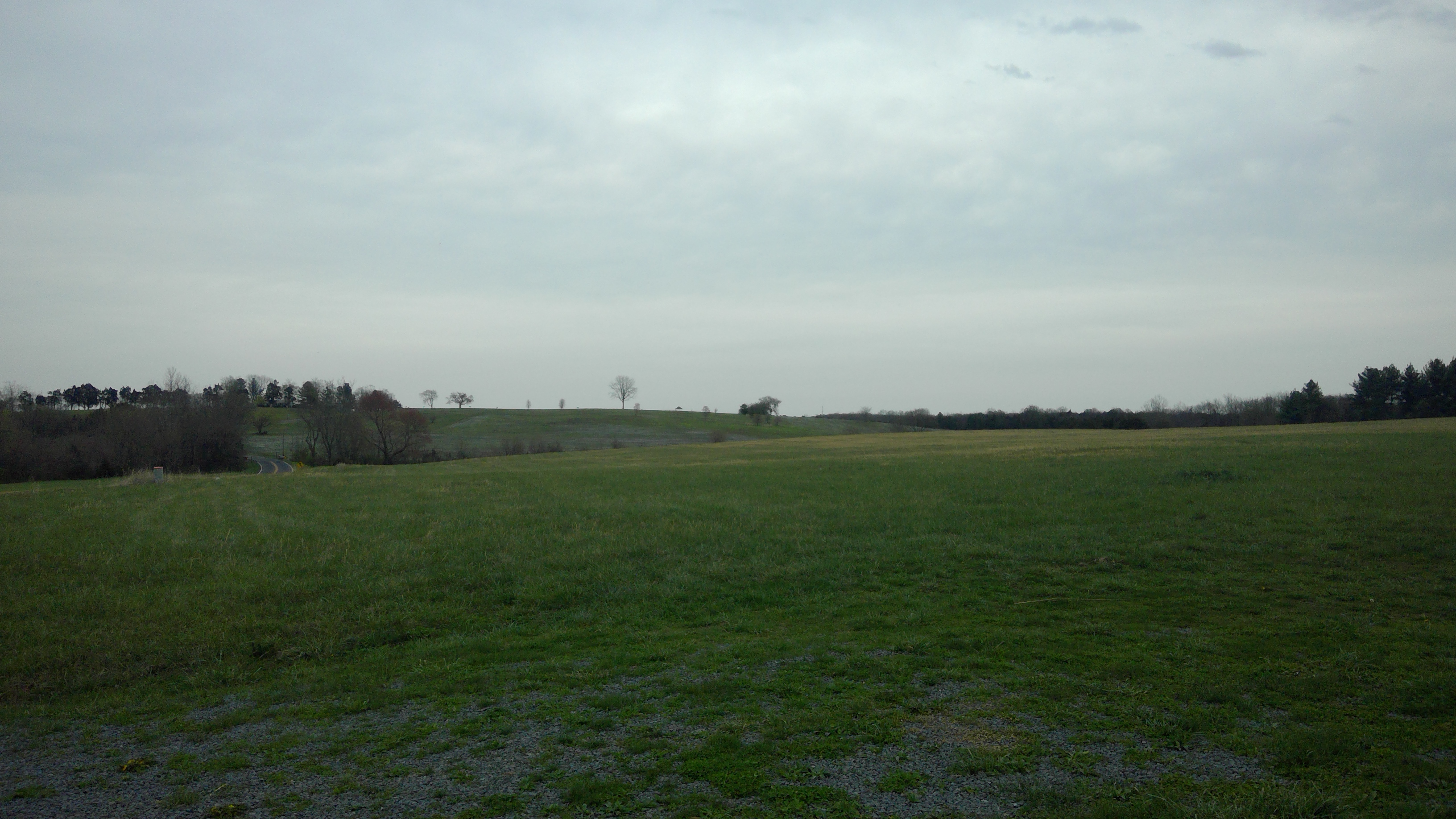 Portion of the battlefield from the Battle of Brandy Station